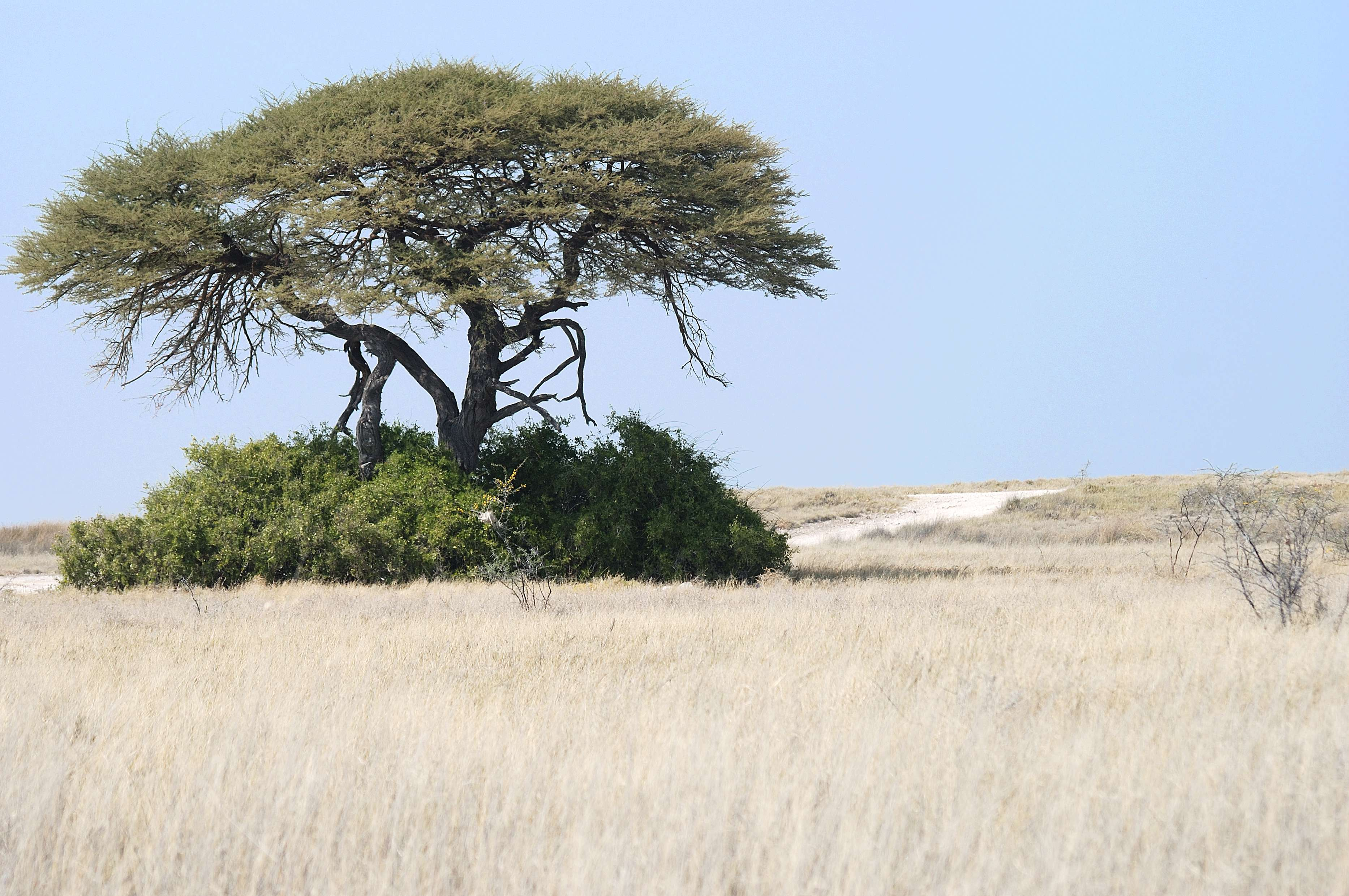 Grassland in Etosha National Park